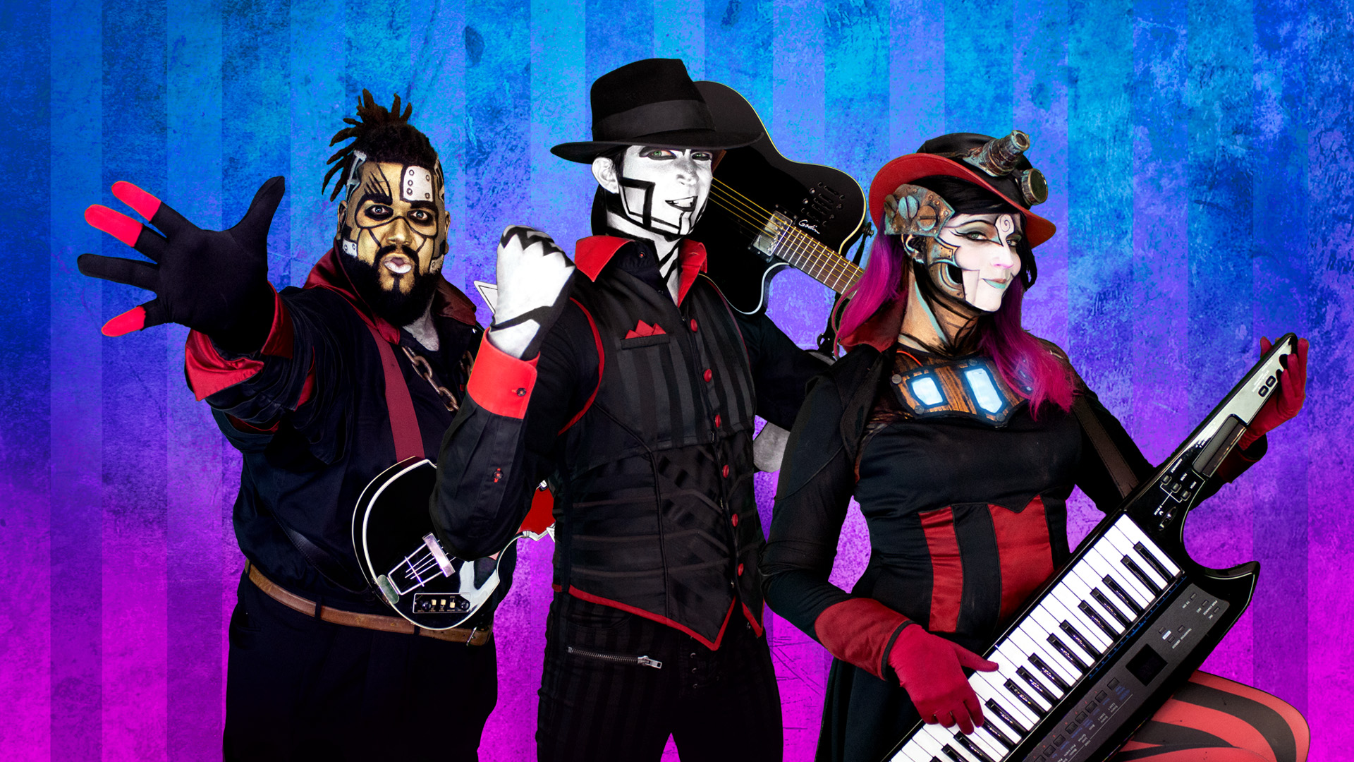 This is a public promotional image for the band Steam Powered Giraffe from 2018 found on their social media sites that features the band members dressed as their characters.